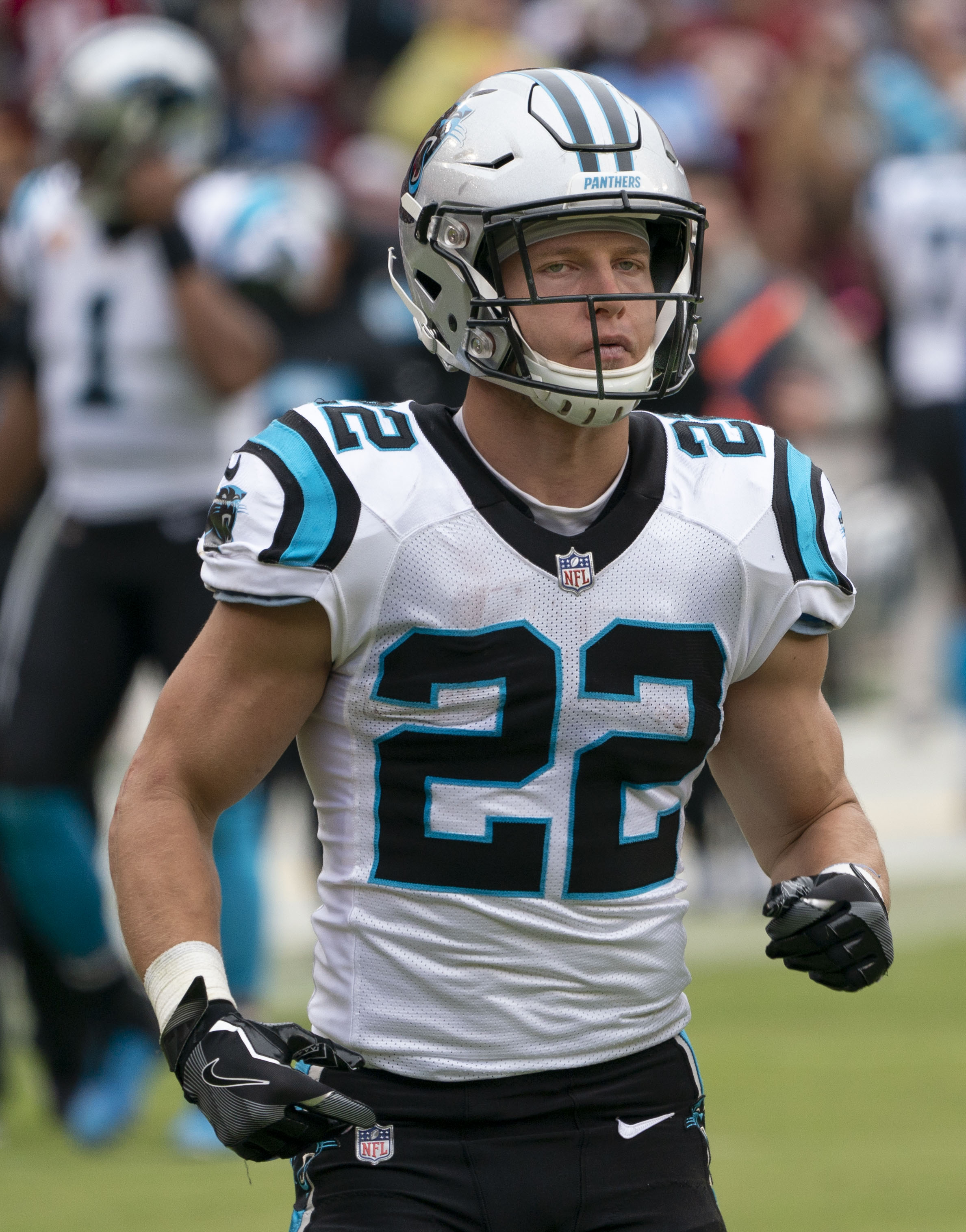 Panthers at Redskins 10/14/18